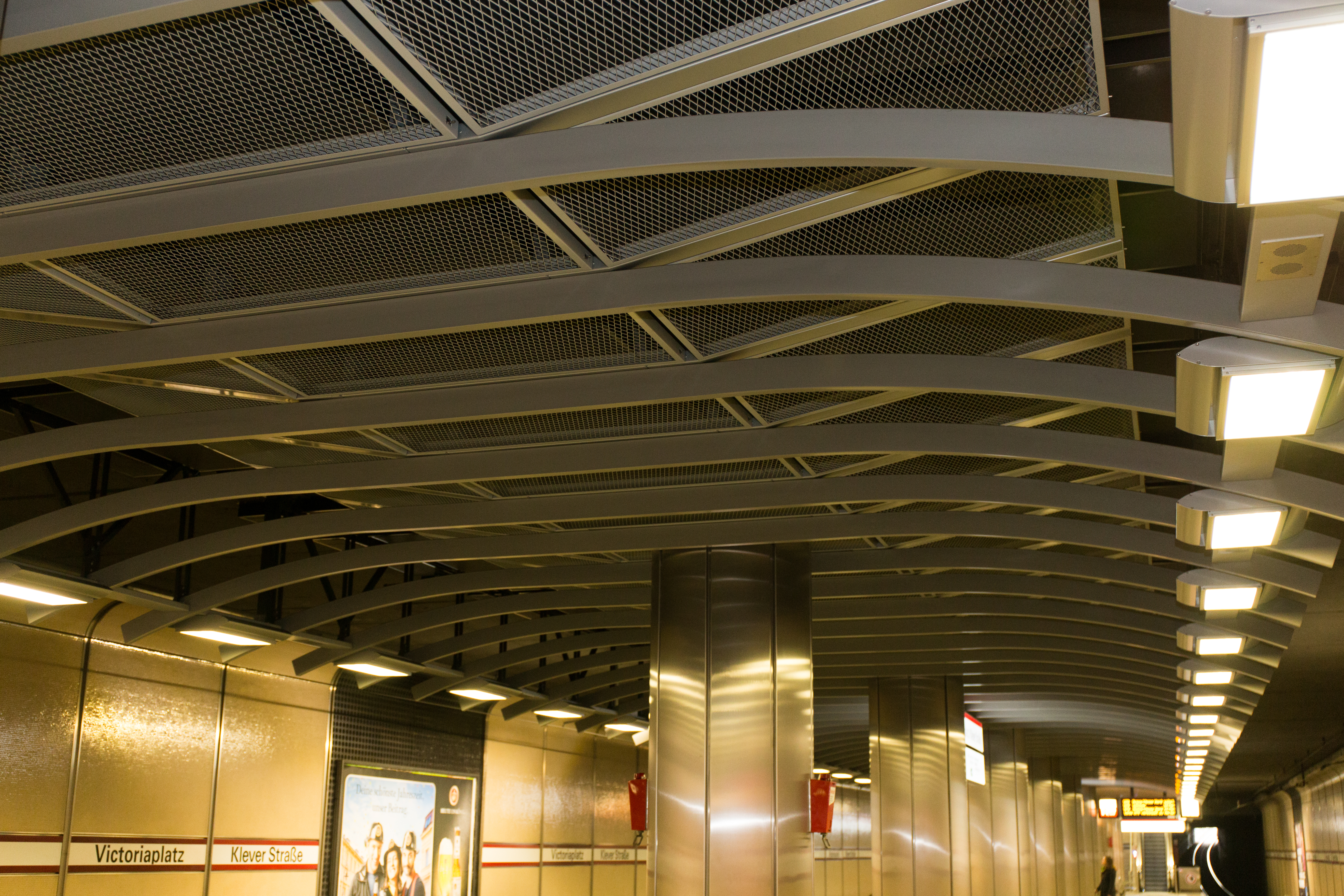 Neue Deckenverkleidung